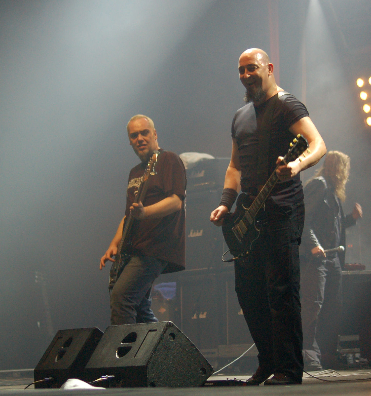 Metal band Paradise Lost during Metalmania 2007 festival. In the foreground, from left: Steve Edmondson, Aaron Aedy.